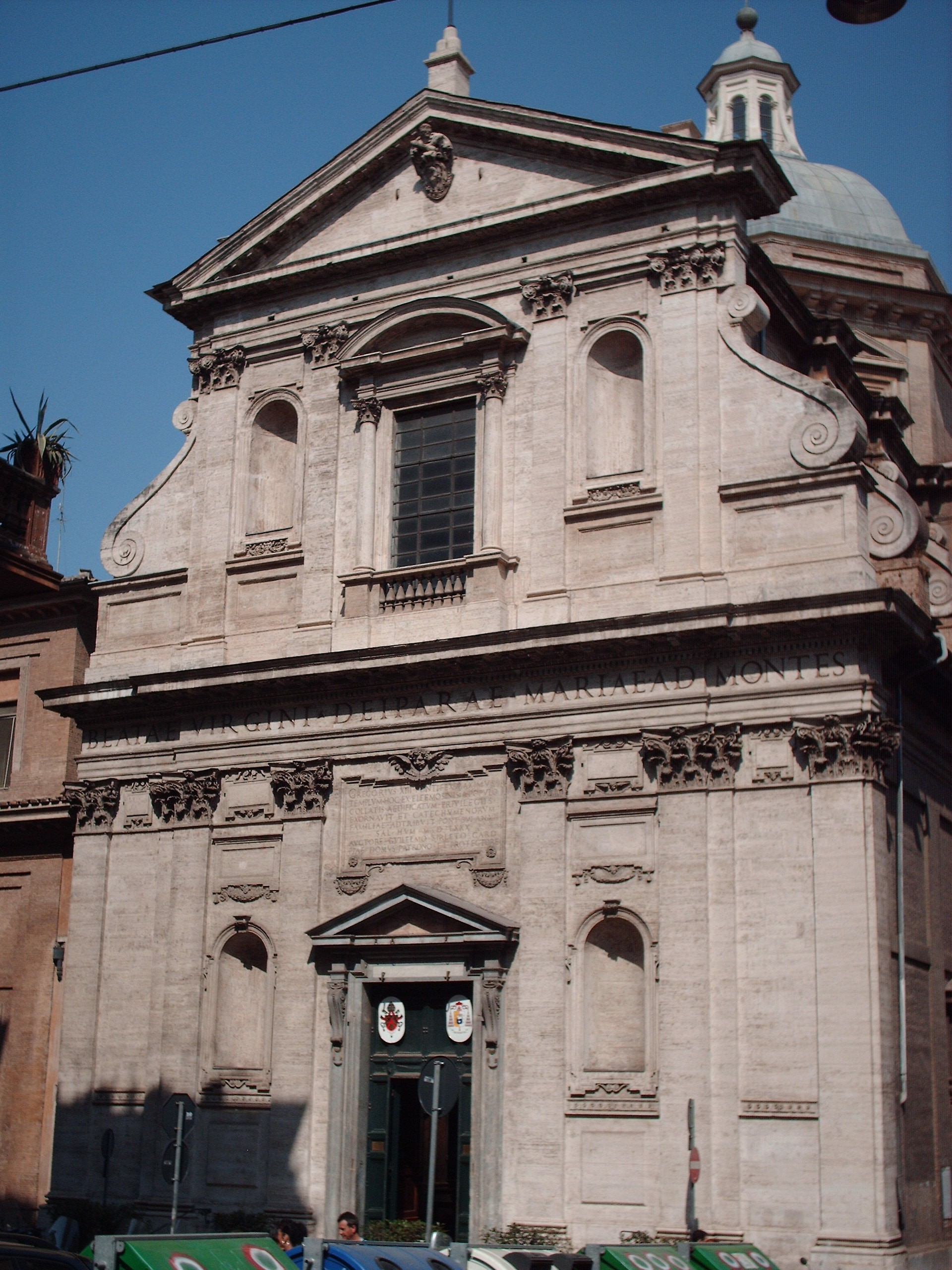 Church of Santa Maria ai Monti in Rome, titular church